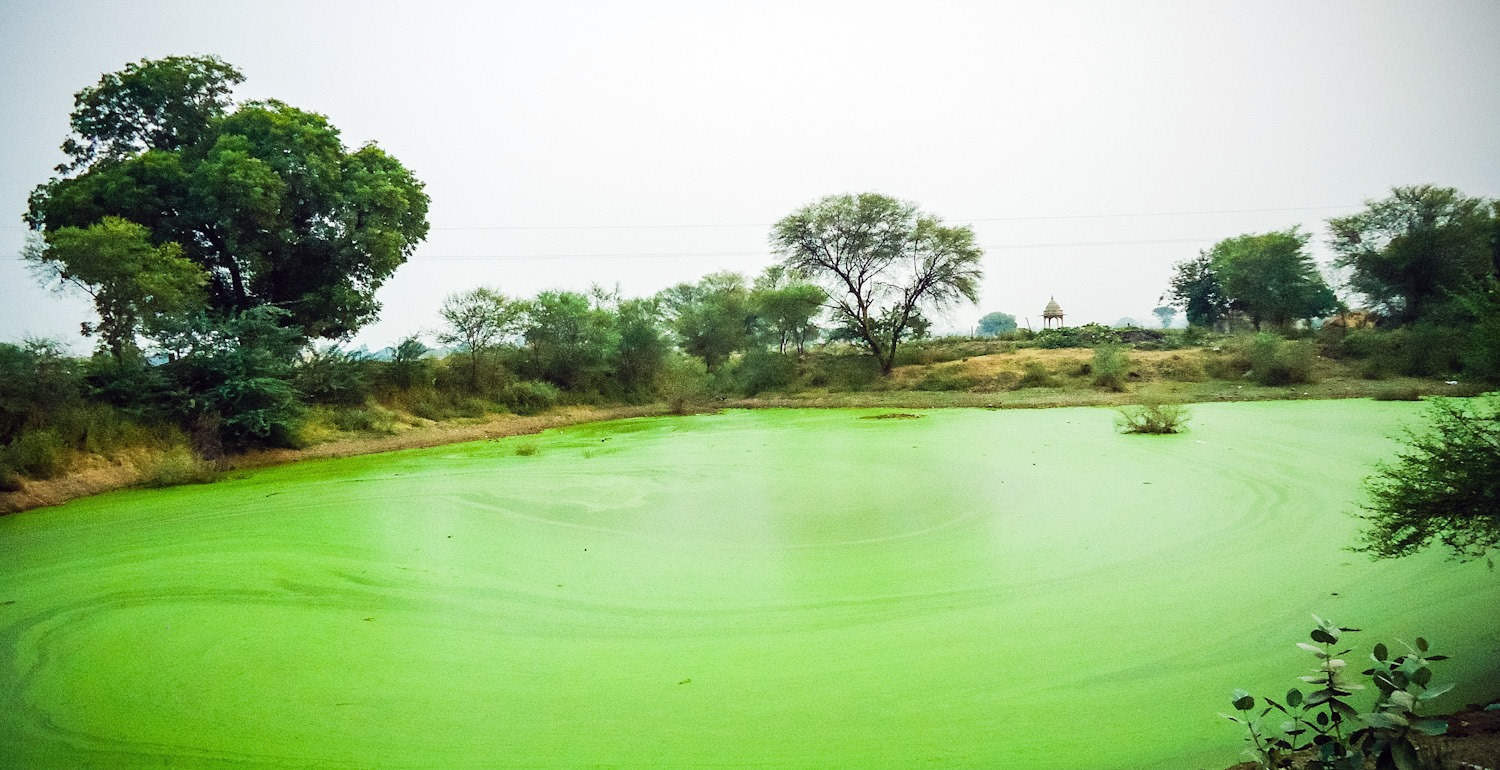 This is common water body of village situated near road